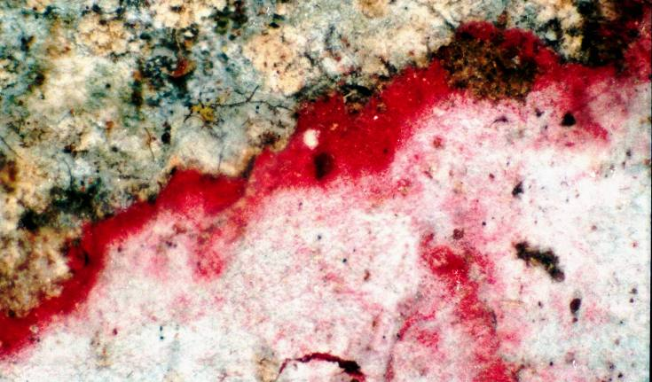 Cryptothecia rubrocincta (Ehrenb.) G. Thor, 1991 [Syn. Chiodecton sanguineum (Swartz) Vainio, 1890] (photograph of a herbarium specimen taken through a dissecting microscope (x40) showing bright red cottony prothallus) Growing on bark of Live Oak, Quercus virginiana L., at Anastasia State Park, St. Augustine, Florida, USA; collected by Heather J. Worthley, identified by Elmer G. Worthley (No. L-569, Mar 1985); specimen is now in the Lichen Herbarium of the New York Botanical Garden.